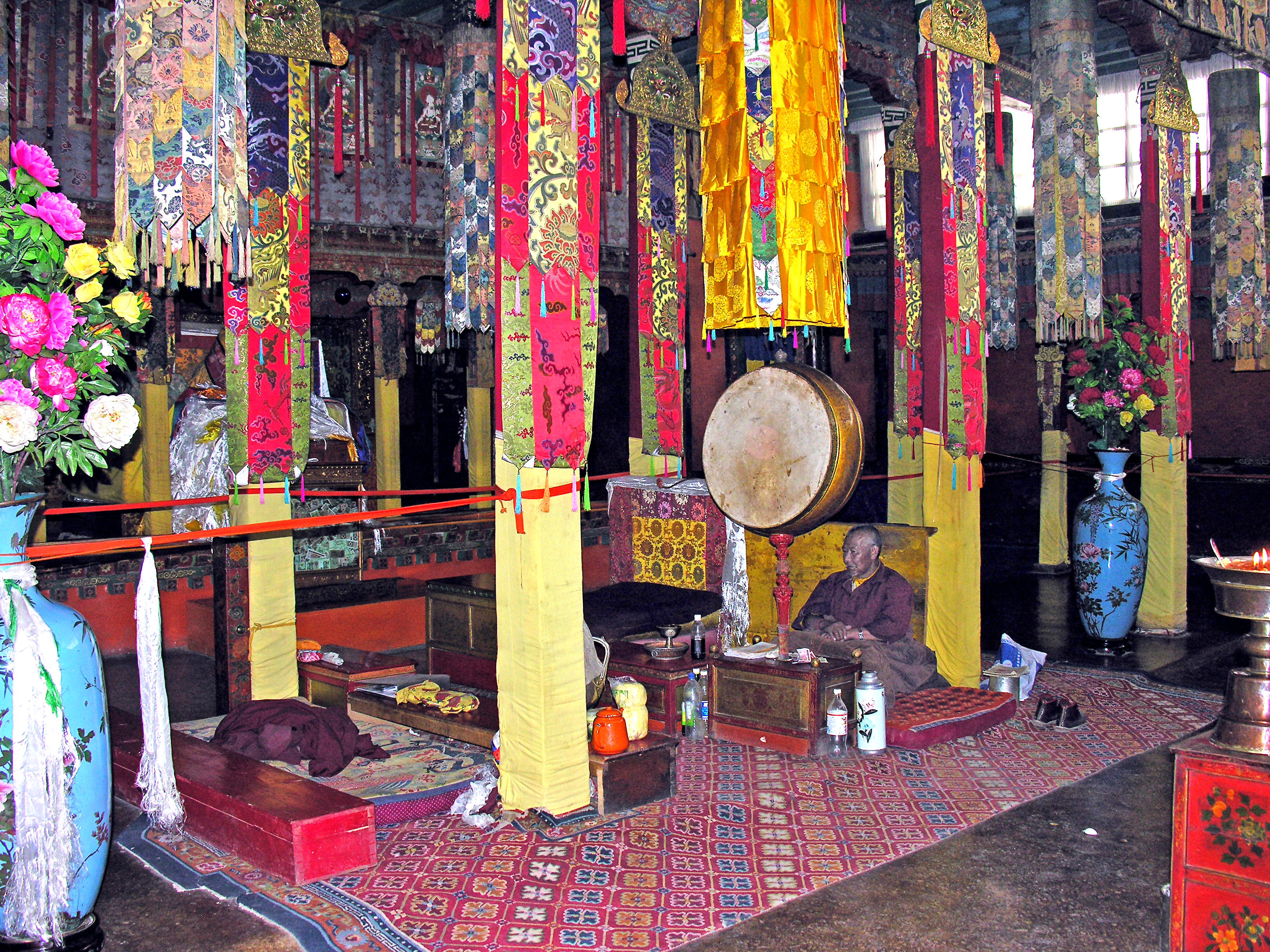 Inside the main hall of the first summer palace. Lhasa, Tibet